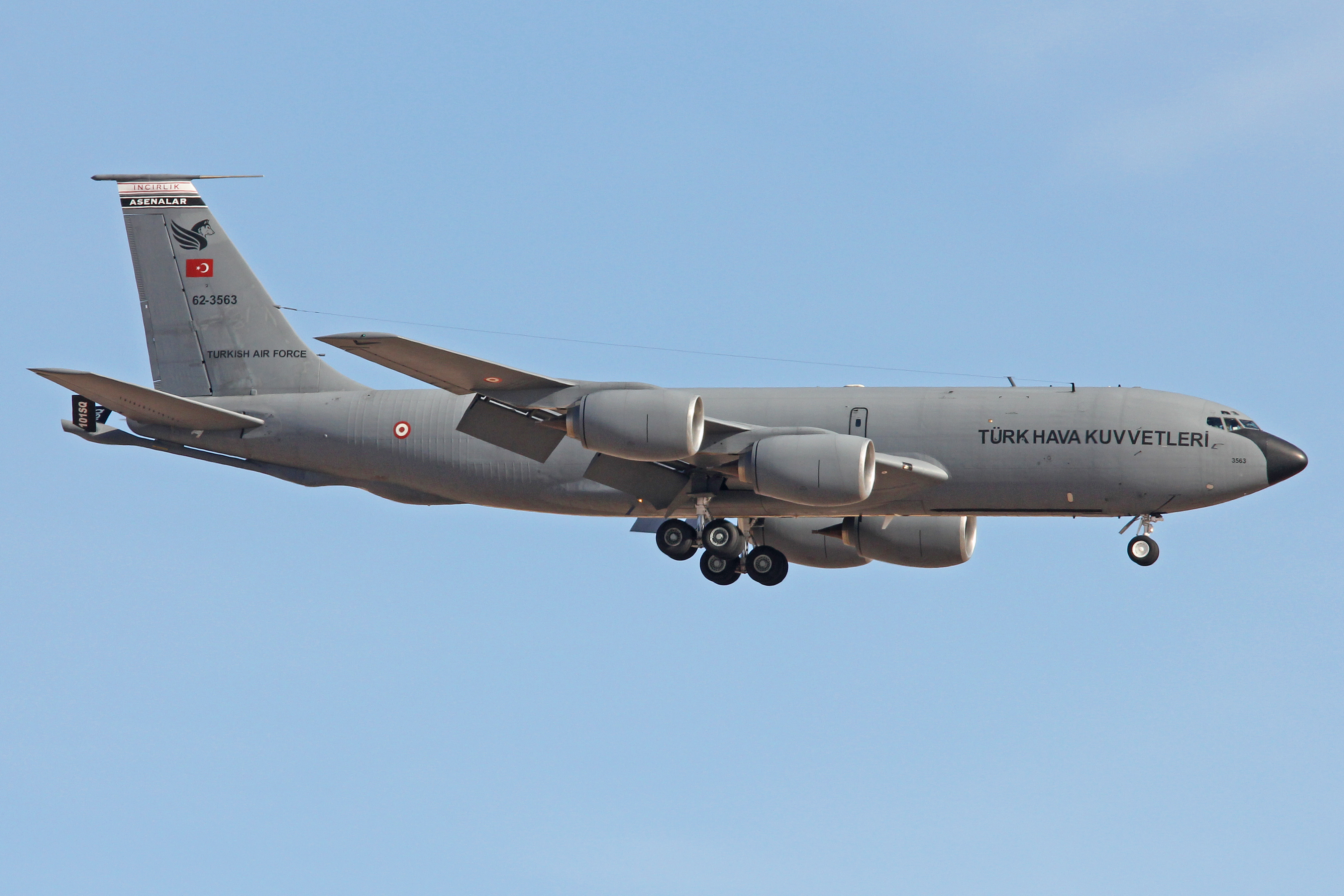 c/n 18546, l/n 614. Original US military serial 62-3563. Now operated by 101 Filo, Turkish Air Force and based at Incirlik. Returning from a mission as part of Red Flag 16-2. Nellis AFB, NV, USA. 2nd March 2016